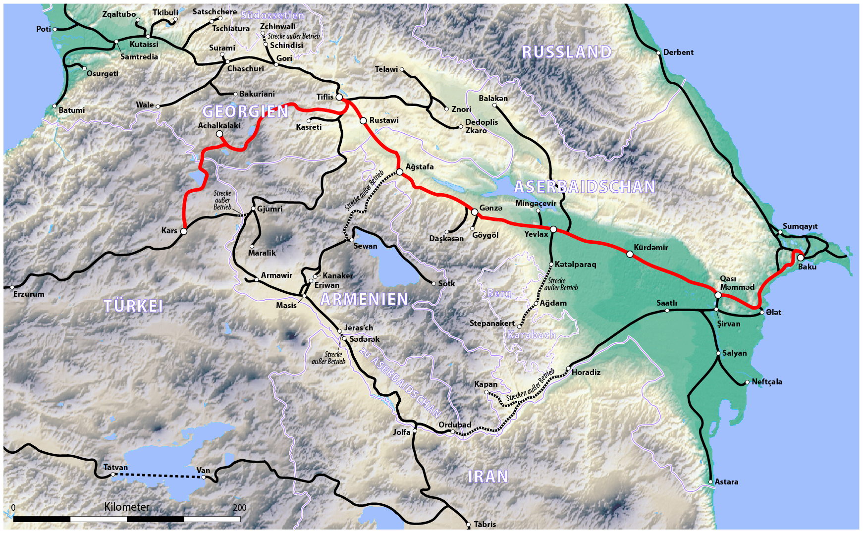 Map of the Kars-Akhalkalaki-Tbilisi-Baku railway (KATB)